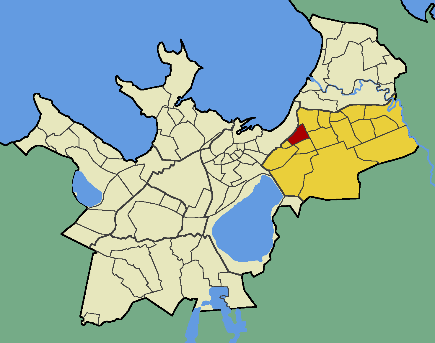 Map of Tallinn (Estonia) with borders of the quarters, Lasnamäe district and Kurepõllu quarter emphasised